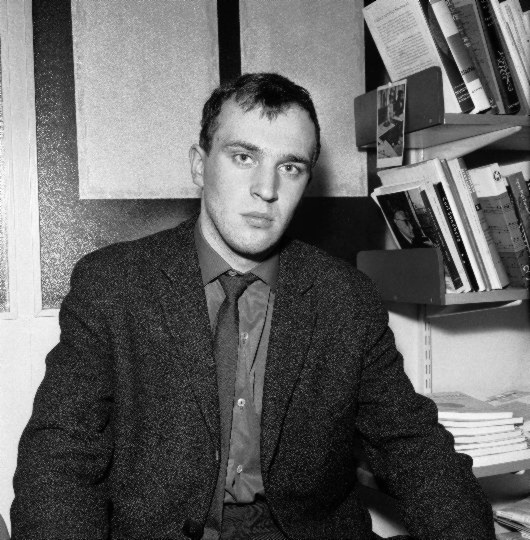 Photograph of the Finnish writer Jussi Kylätasku (1943–2005).